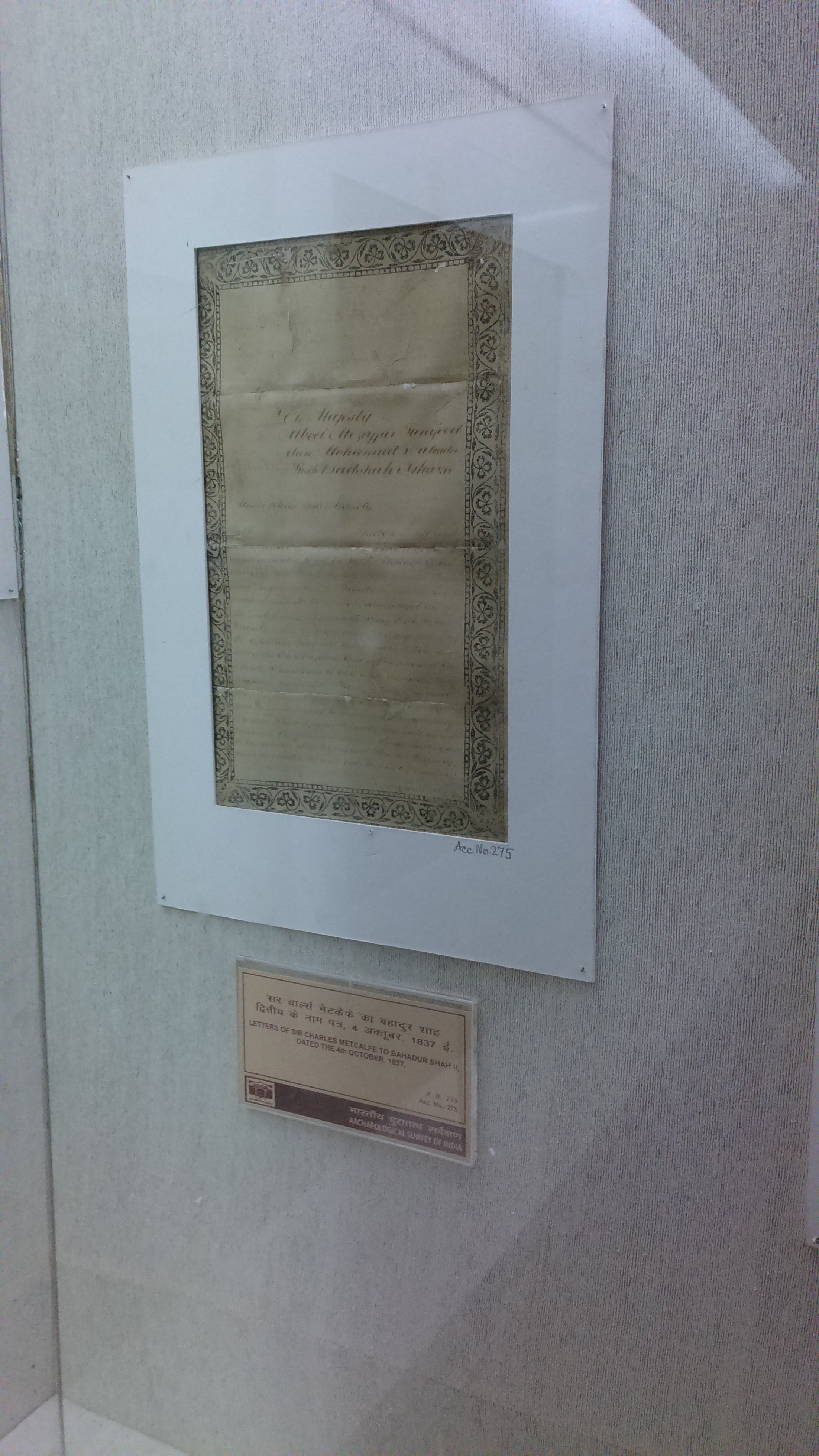 Letter given by Sir Charles Metcalfe to Bahadur Shah Zafar